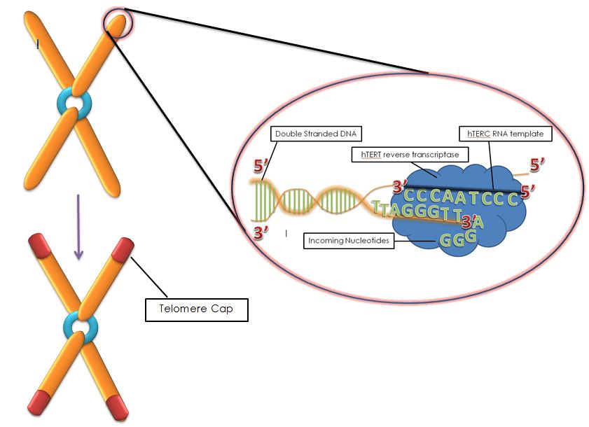 Telomere stabilized and synthesized by telomerase.